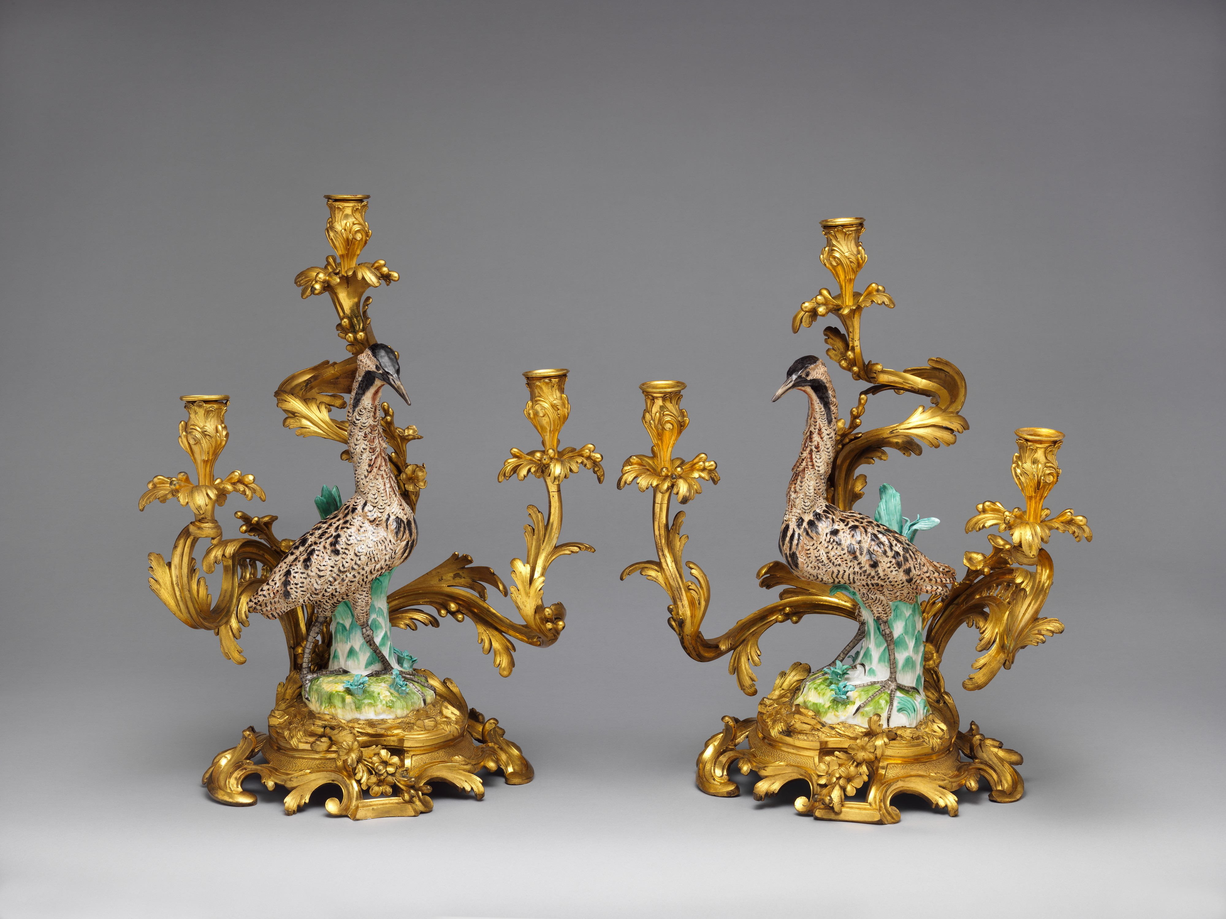 German, Meissen with French (Paris) mounts; Candelabra; Ceramics-Porcelain